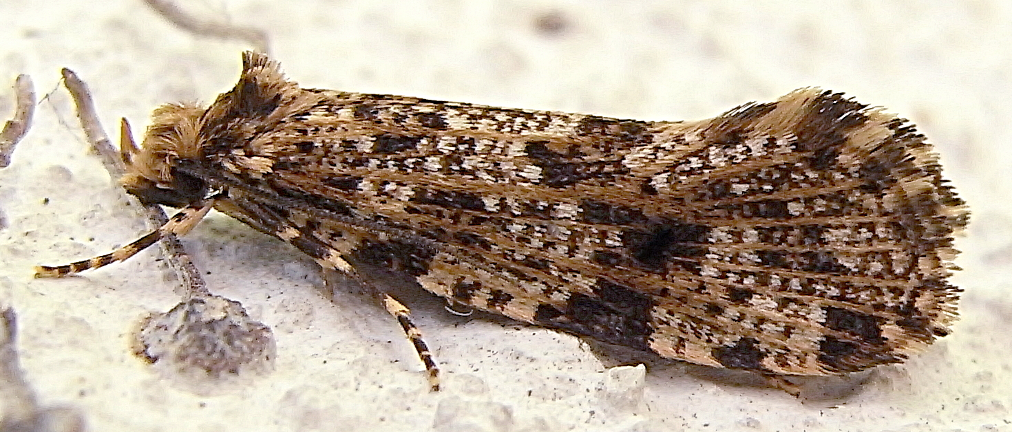 Montescardia tessulatellusRicoh R8